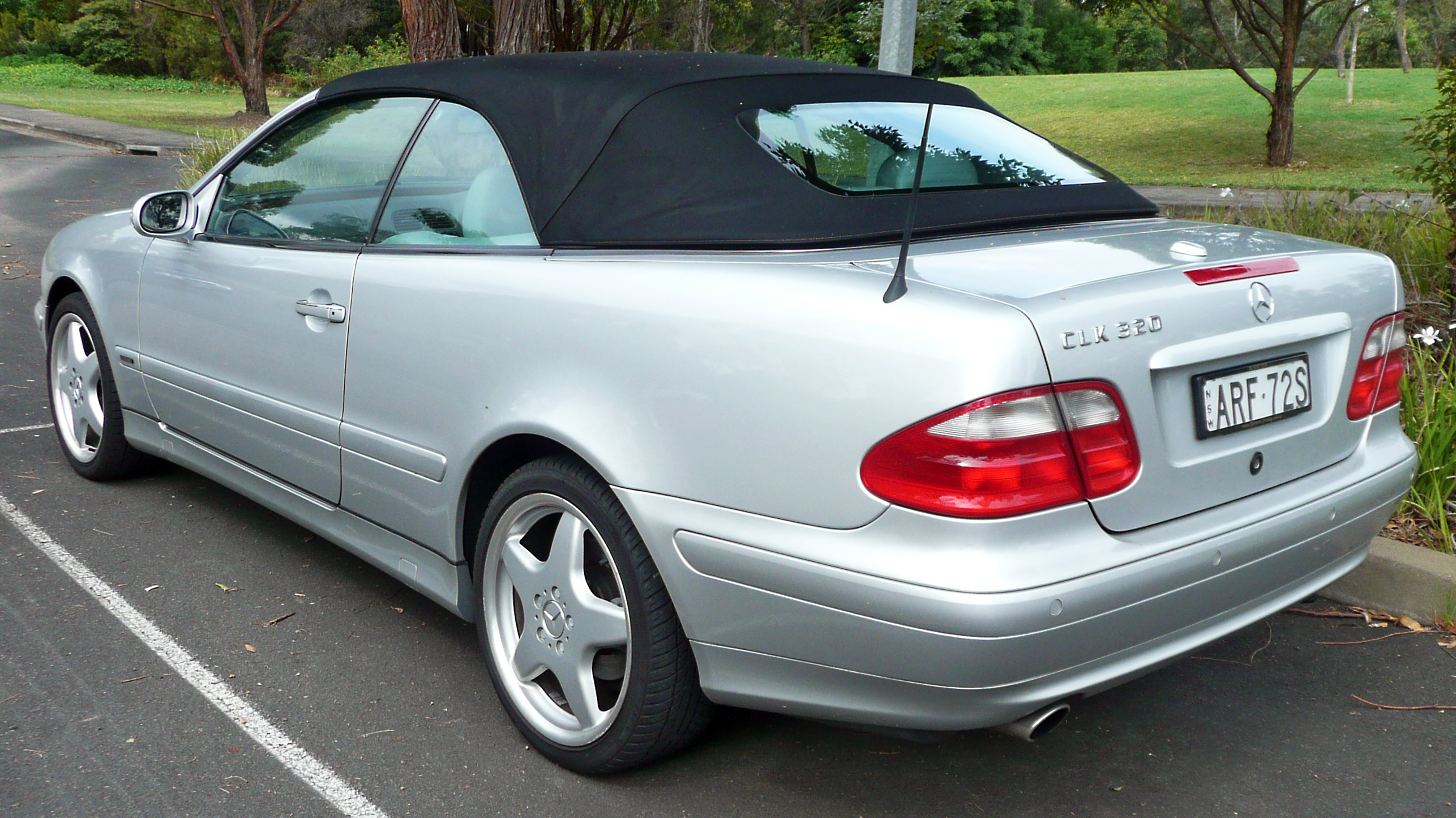 1999–2003 Mercedes-Benz CLK 320 (A 208) Elegance convertible. Photographed in Loftus, New South Wales, Australia.